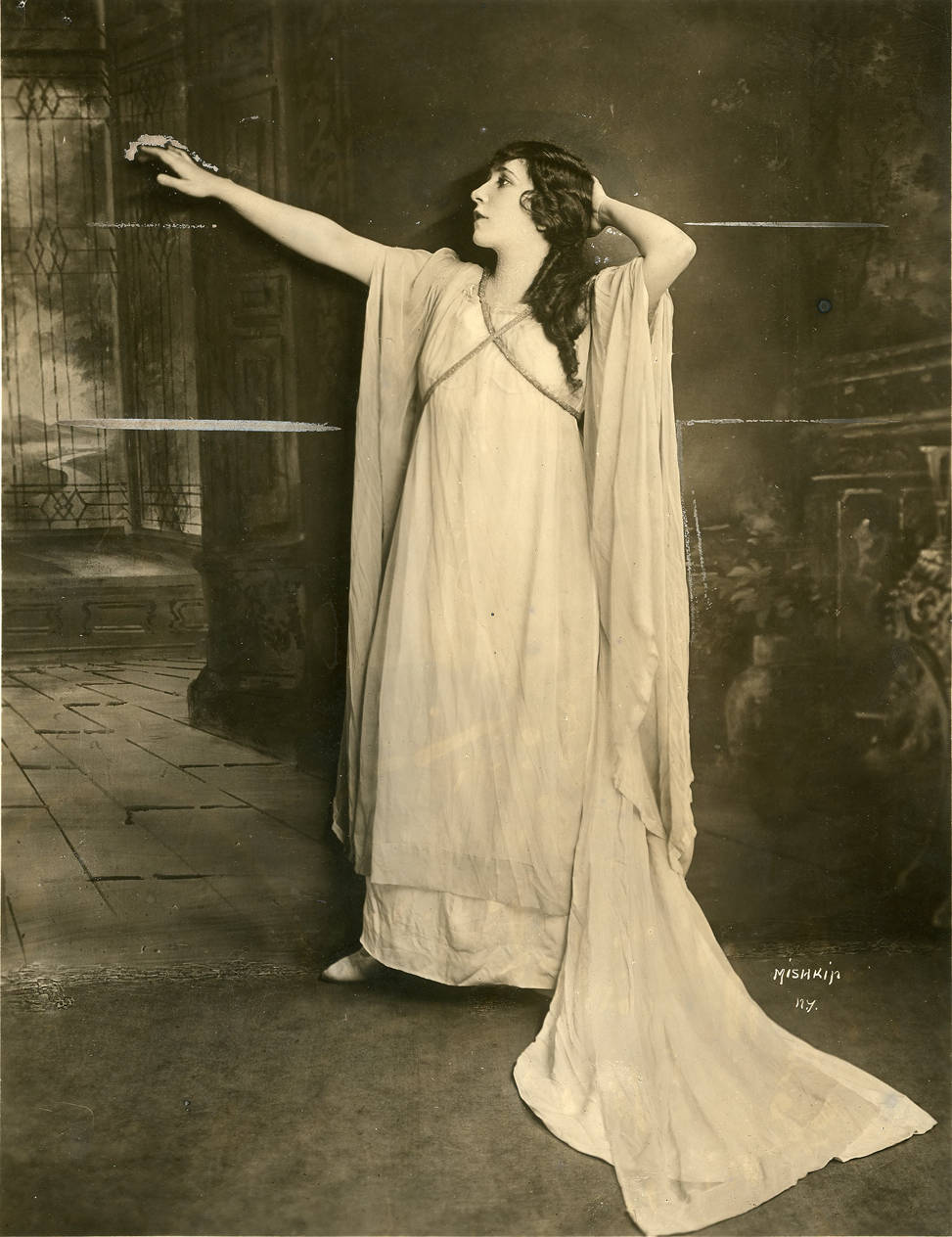 Queena Mario, opera singer Subjects: singers